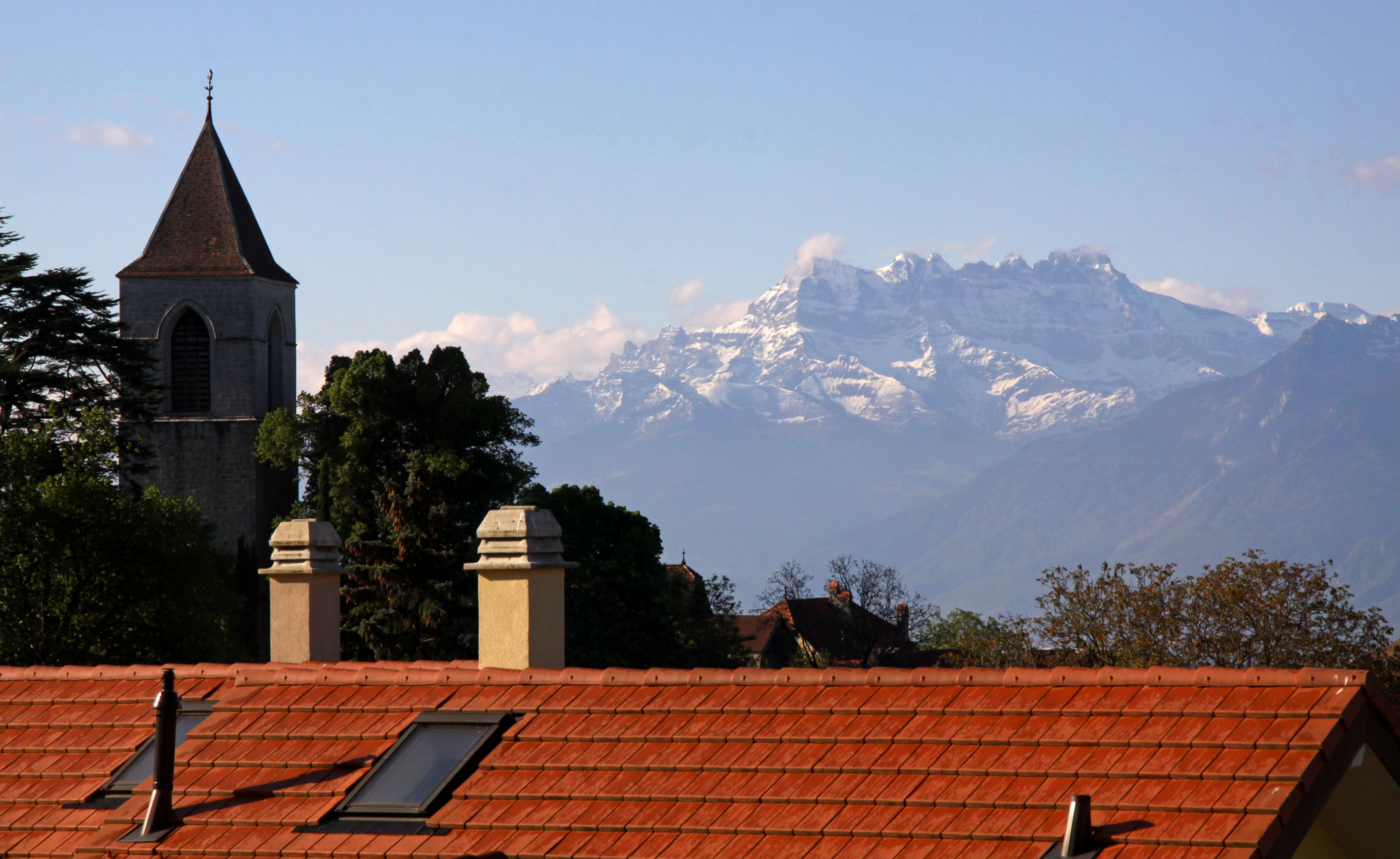 Saint-Légier village in Saint-Légier-La Chiésaz, Vaud, Switzerland